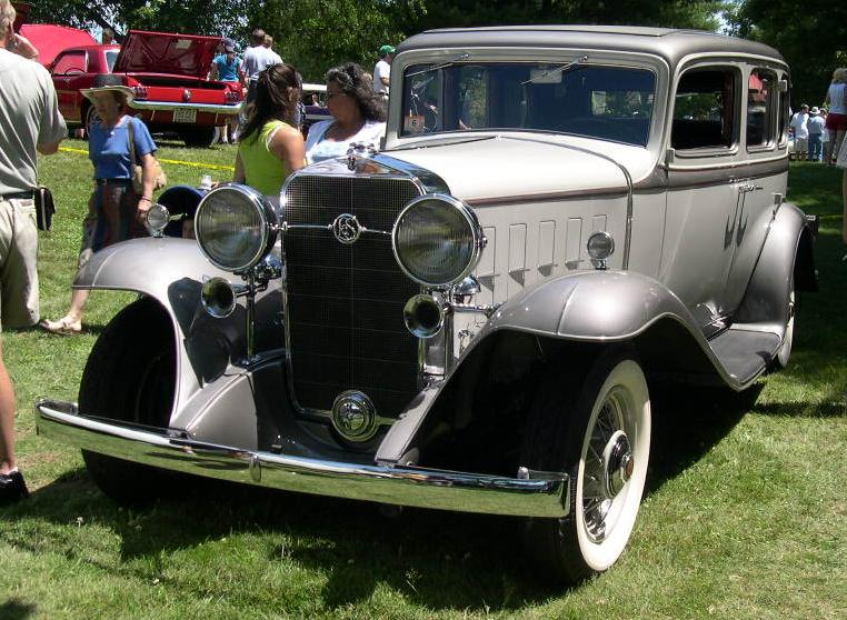 1932 La Salle Series 345-B 5-passenger Sedan Source: Photographed at the Bay State Antique Automobile Club's July 10, 2005 show at the Endicott Estate in Dedham, MA by User:Sfoskett